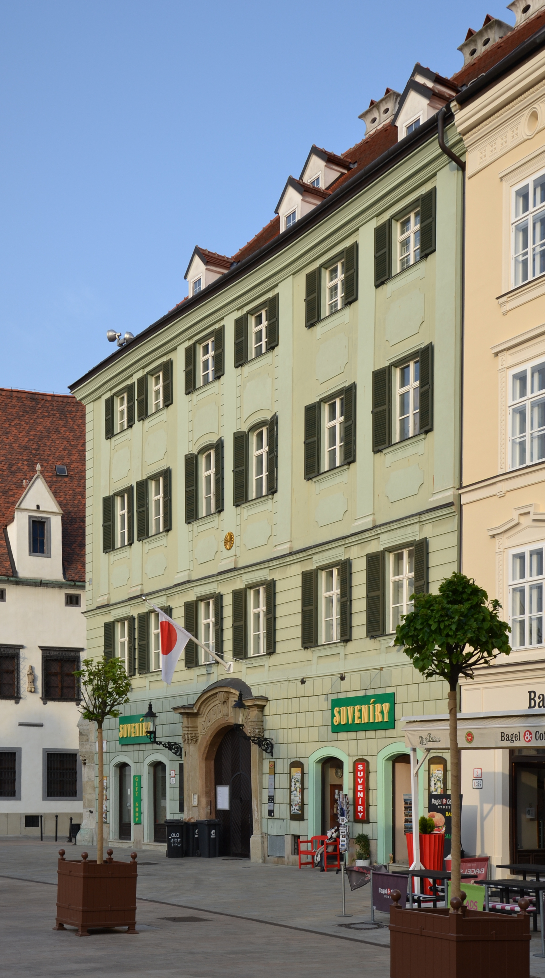 Japanese Embassy, Bratislava (Pressburg, Pozsony)